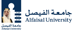 This is the Official Logo of Alfaisal Univertsity